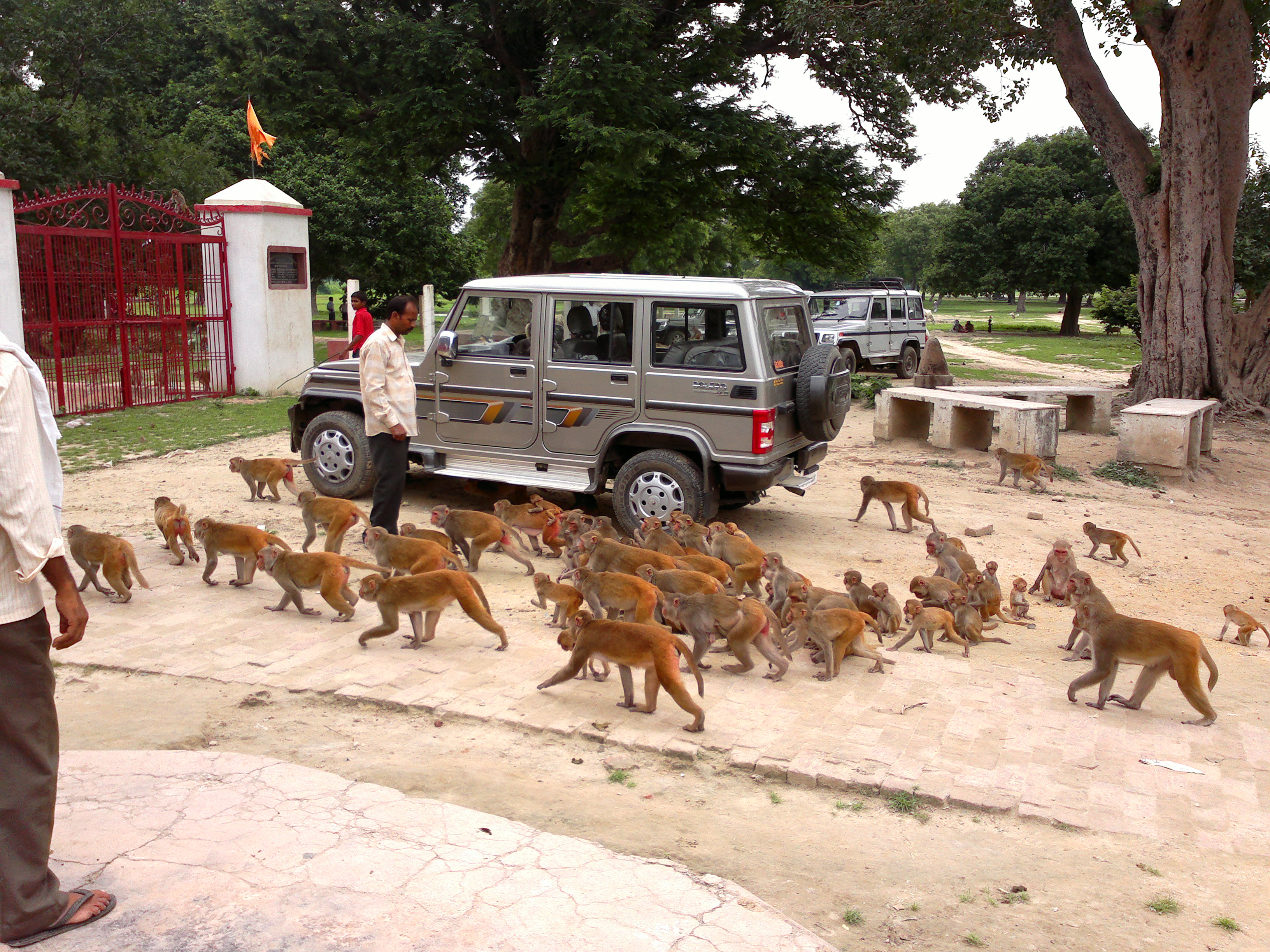 Group of monkeys chasing for foods